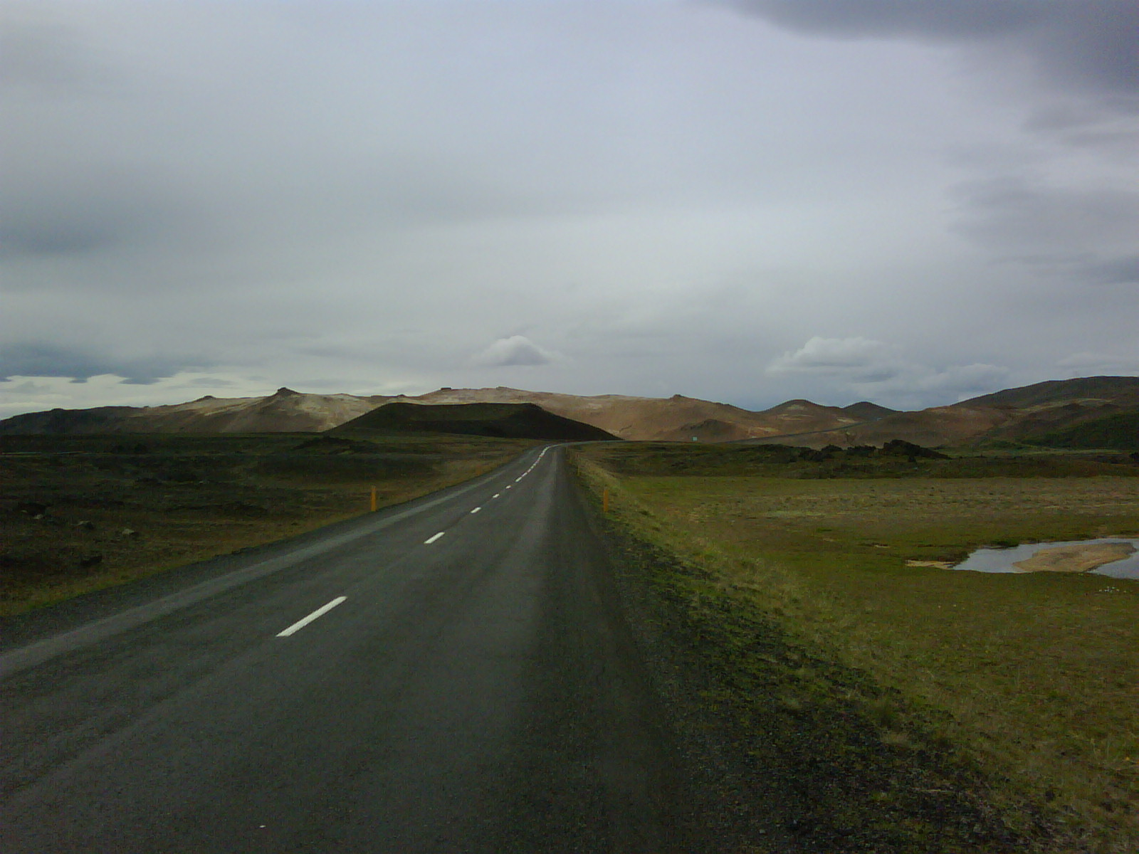 Hringvegur